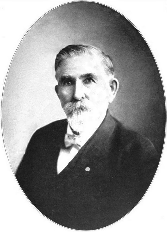 William G. Blakely (August 29, 1829 – April 19, 1920), American Judge (Mohave County, Arizona Territory), Methodist minister, and member of 24th Arizona Territorial Legislature